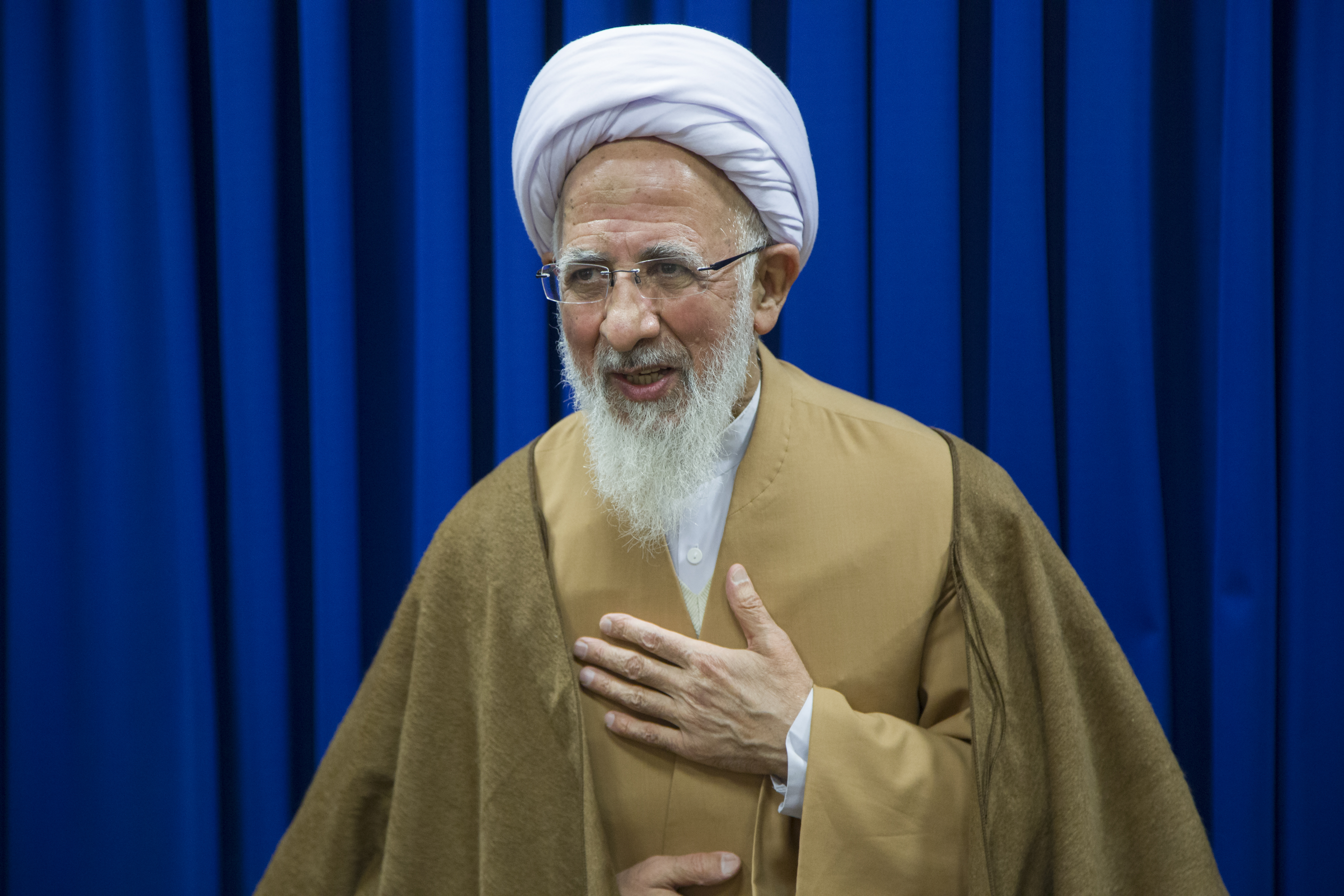 عبدالله جوادی آملی (زادهٔ ۱۳۱۲، آمل)، فقیه، مفسر قرآن و مدرس حوزه علمیه قم و از مراجع تقلید شیعه ایرانی است. وی سابقه عضویت مجلس خبرگان قانون اساسی، جامعه مدرسین حوزه علمیه قم، مجلس خبرگان رهبری، شورای عالی قضایی را داشته و سالها یکی از امامان جمعه موقت قم بوده است.